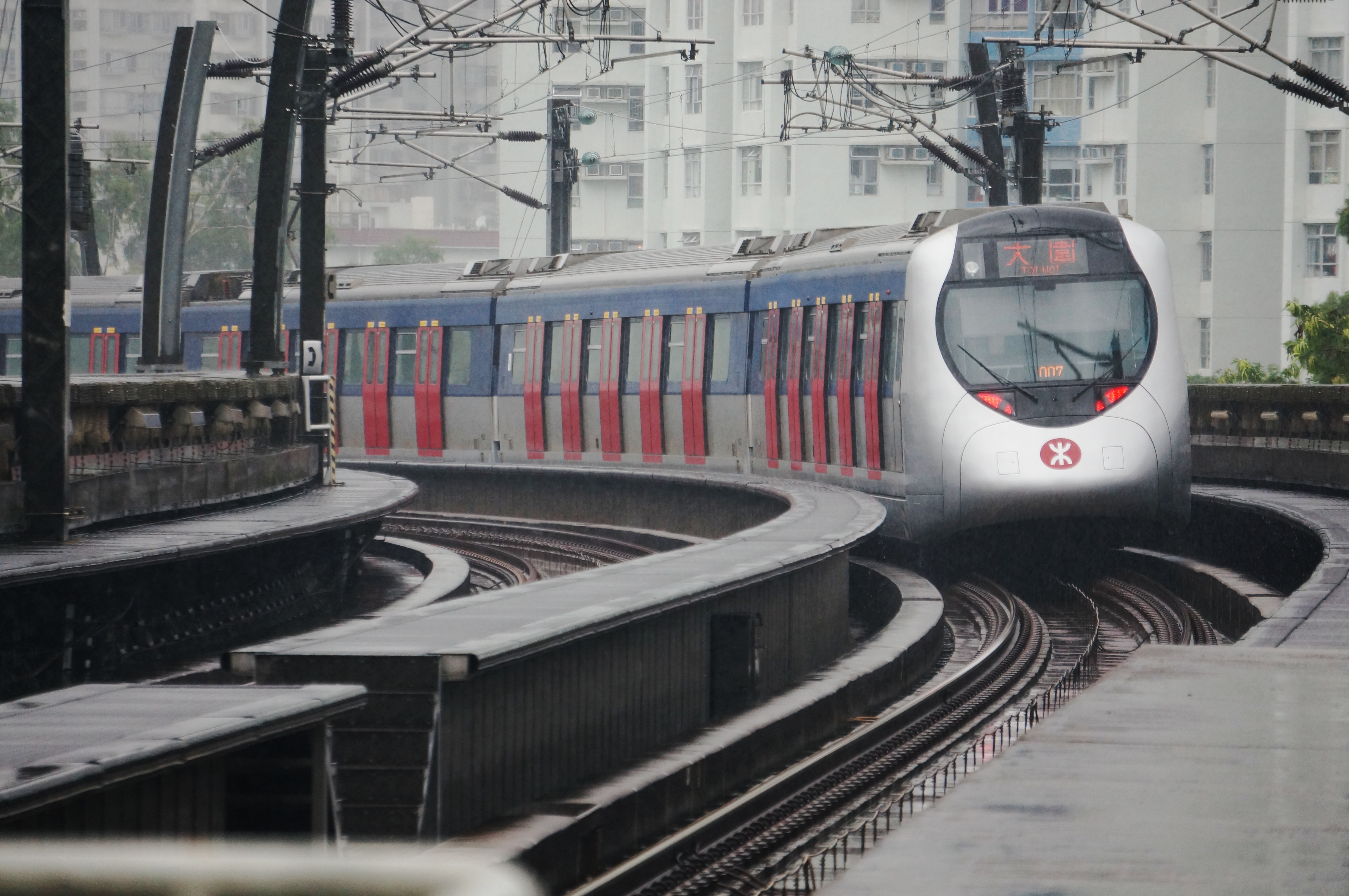 An MTR SP1950 EMU leaving Che Kung Temple Station. 中文（香港）: SP1950列車駛離車公廟站